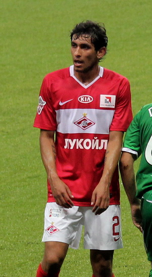 Kristian Maidana